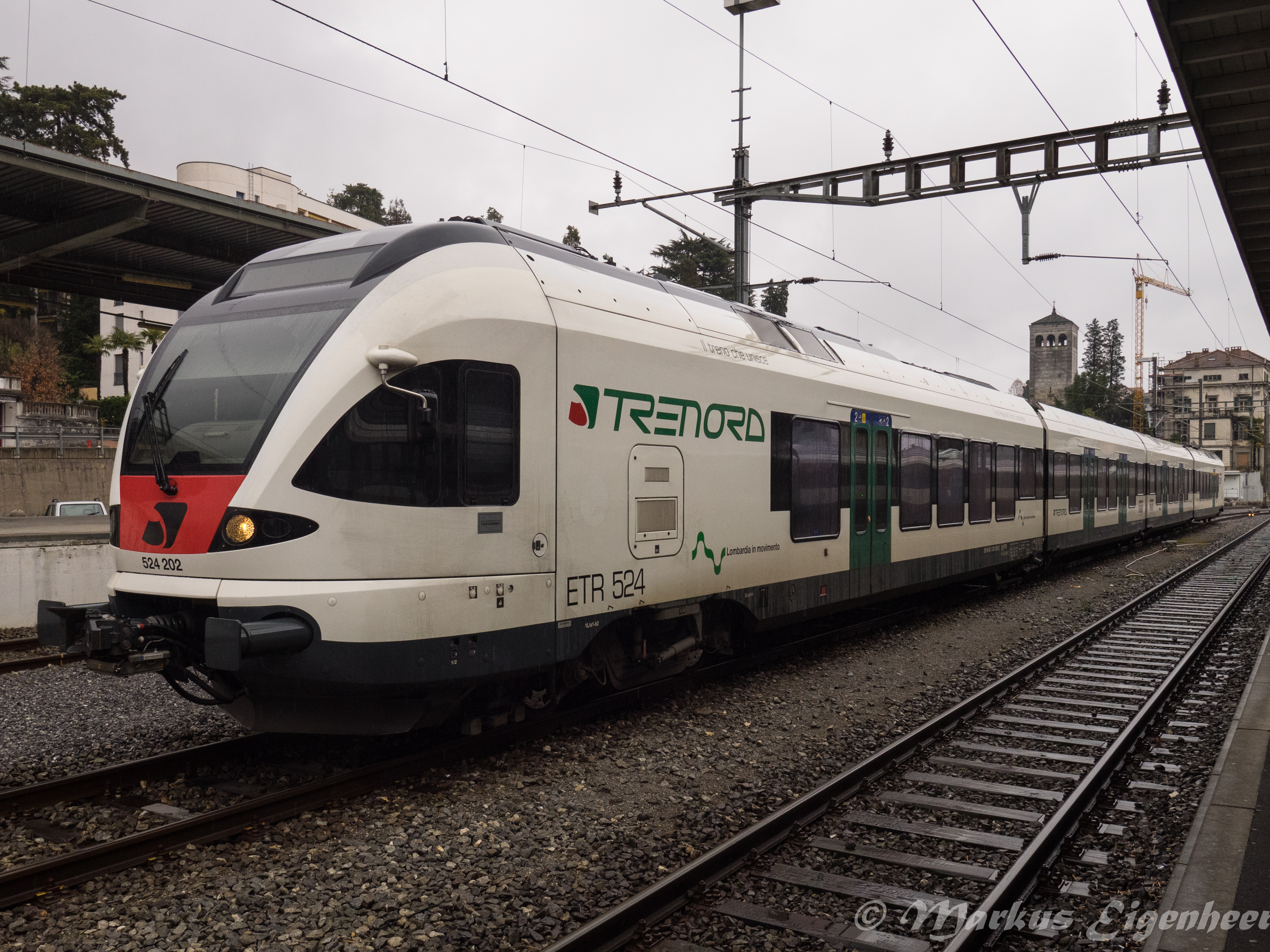 Locarno 07.02.2016